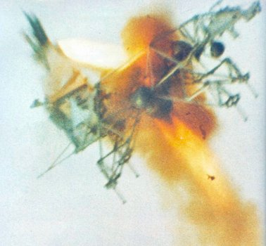 The Lunar Landing Training Vehicle fails, causing test pilot Stuart Present to eject.